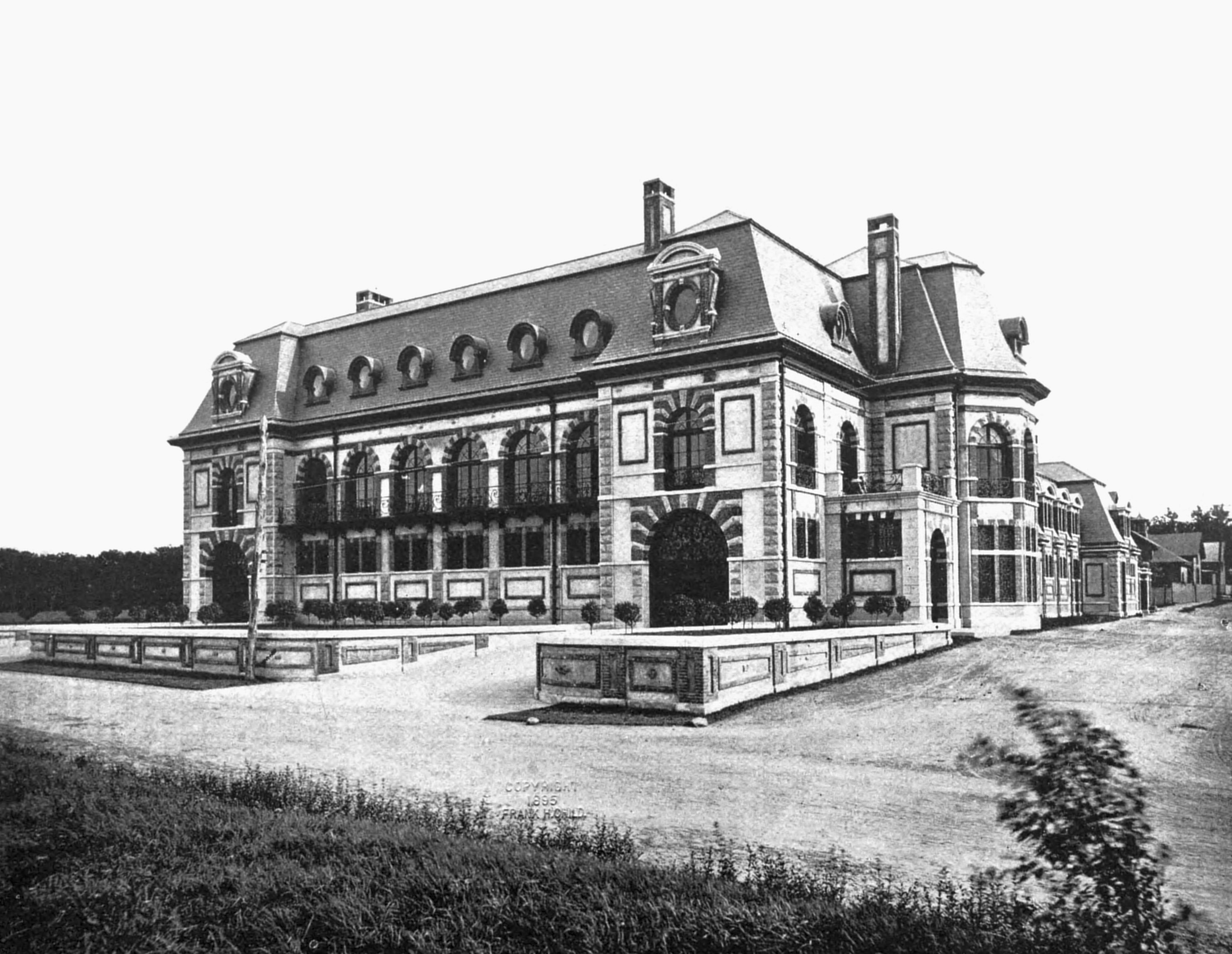 Belcourt from the corner of Ledge Road and Lakeview Avenue, Newport, Rhode Island